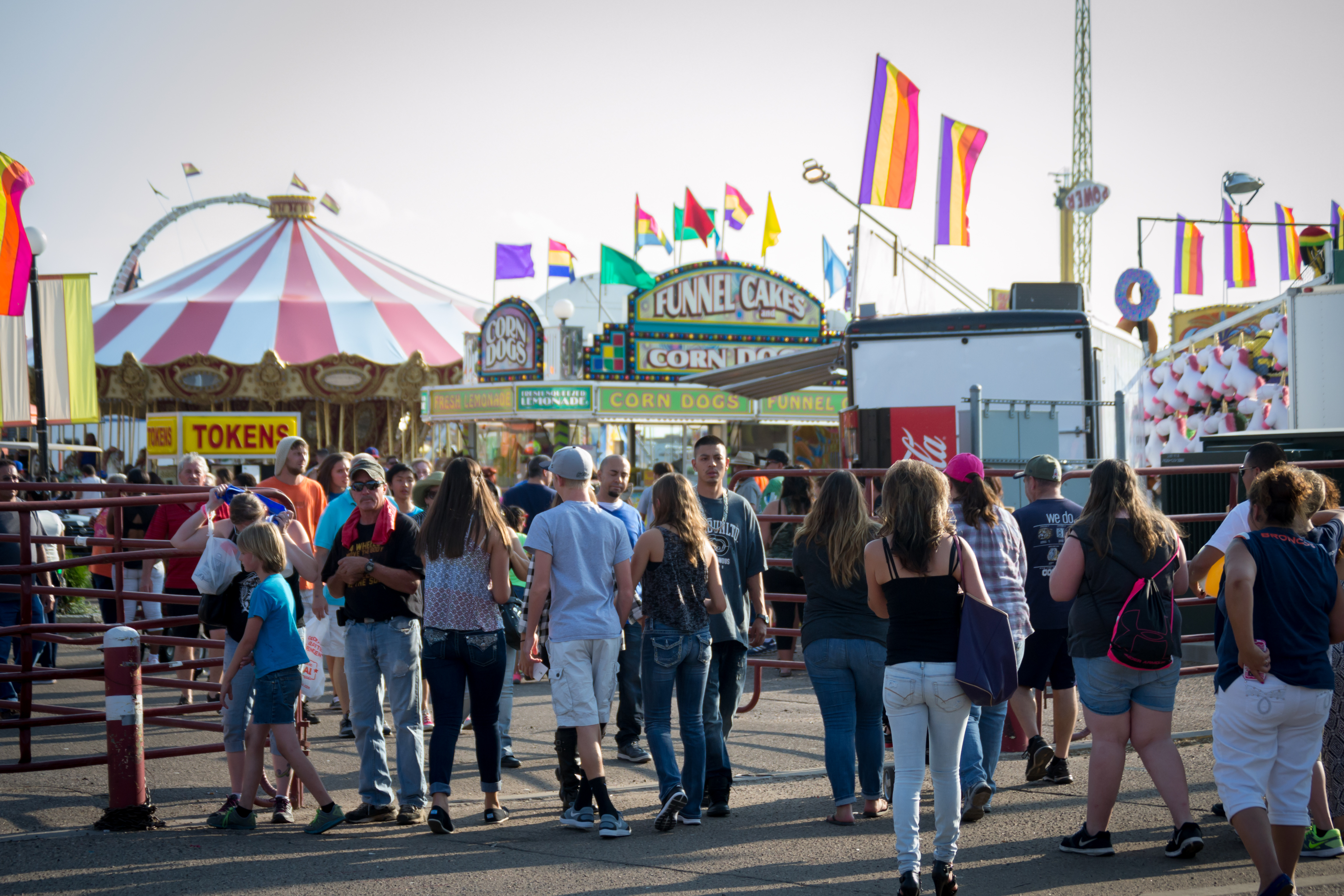 Colorado State Fair, 2015-08-29, Pueblo, Colorado, Dustin Cox Photography